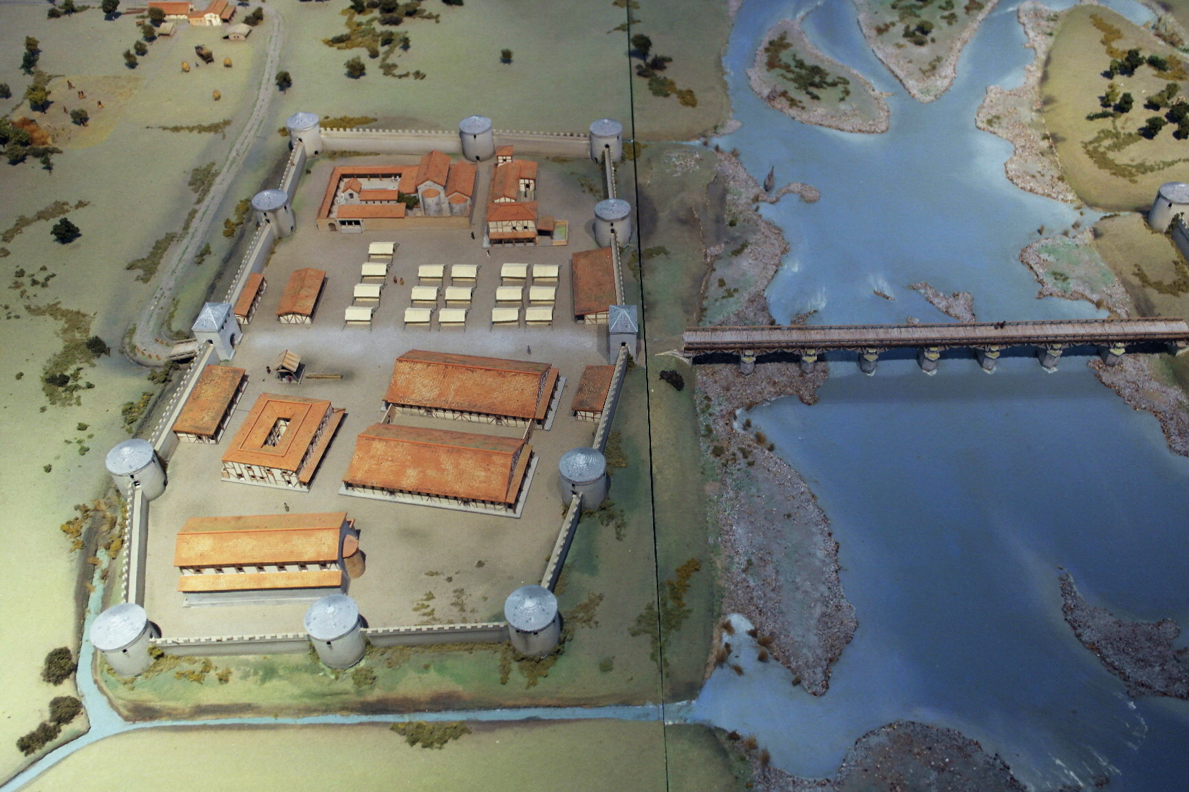 Maastricht, the Netherlands. Scale model of Maastricht in the late-Roman period, after the construction of the castrum (313). The 1992 model by F. Schiffeleers is partly based on archaeological excavations (bridge, roads and castrum left bank), partly on extrapolation (Wyck castrum, some buildings). Photographed in Centre Céramique, November 2014.